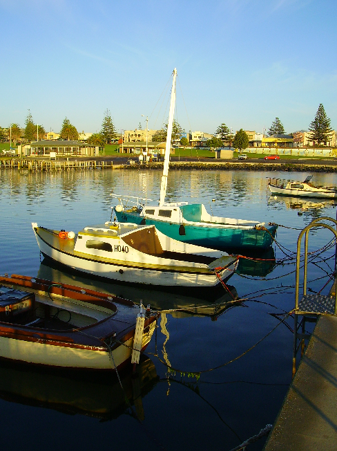 Boat marina Portland Harbour. Beachieon